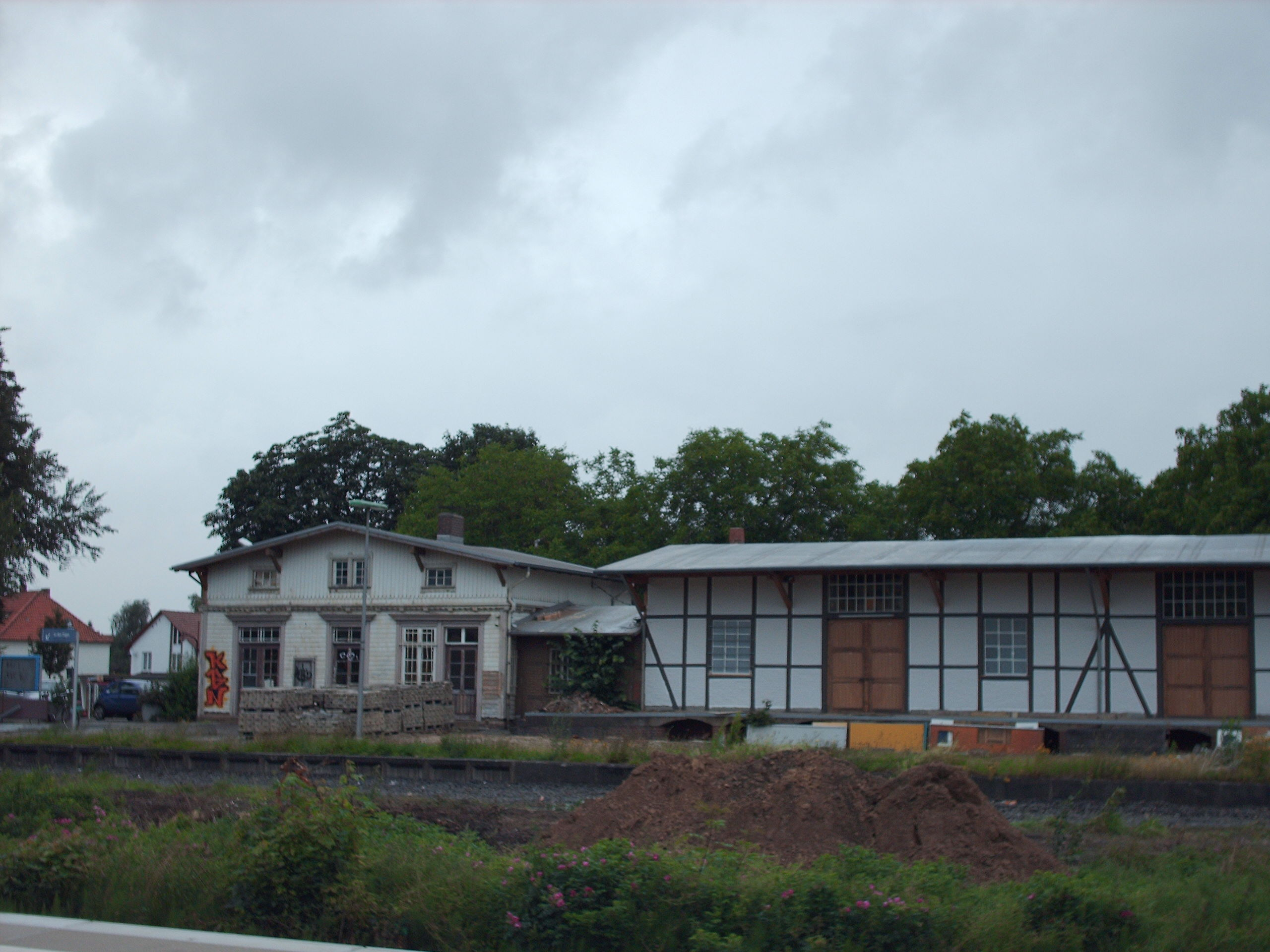 Holzhausen-Heddinghausen station, Preußisch Oldendorf, Germany check usage